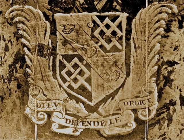 Teviot arms